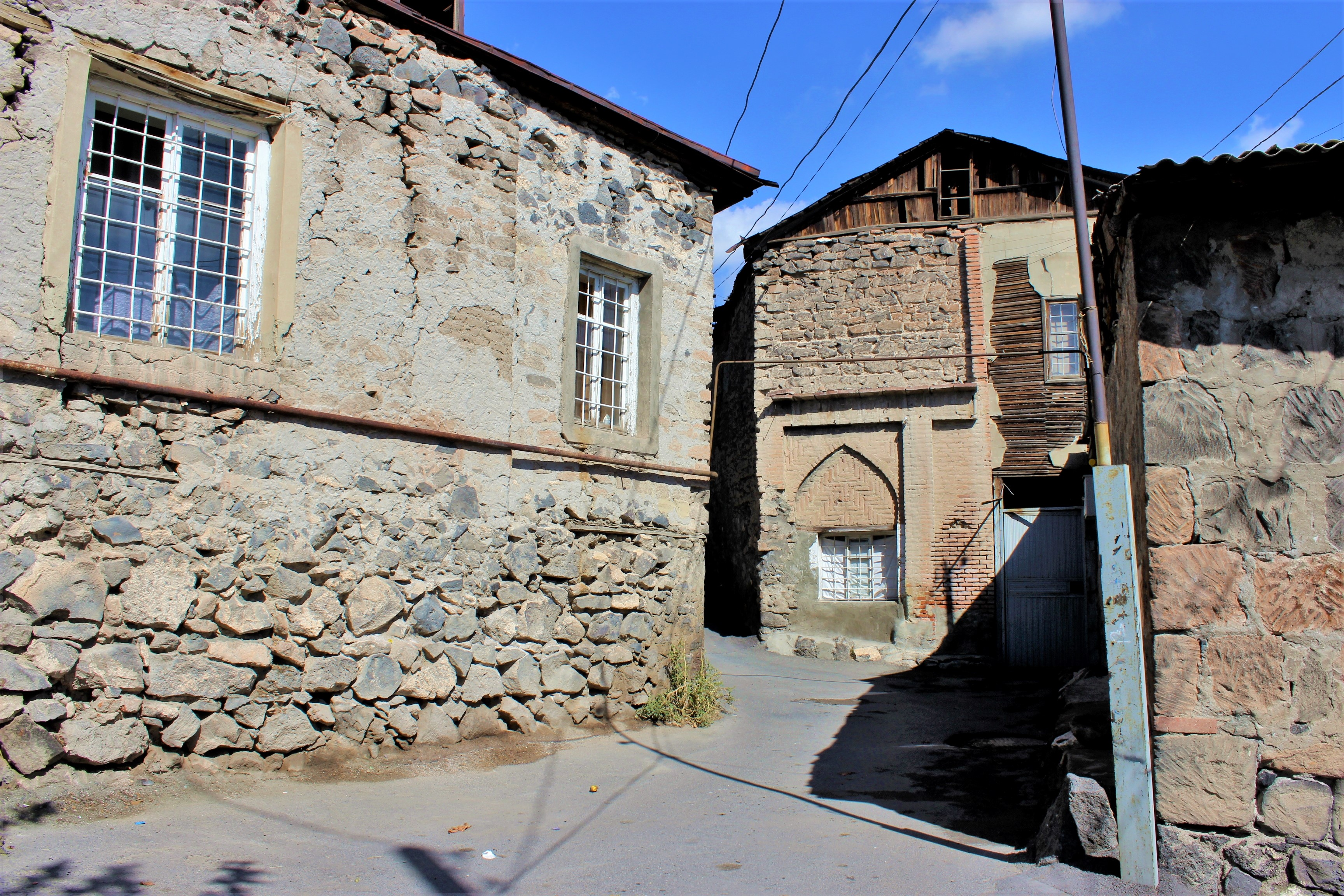 Older homes and buildings exhibiting characteristics of Turkish architecture along the streets of Kond, Kentron District, Yerevan, Armenia.